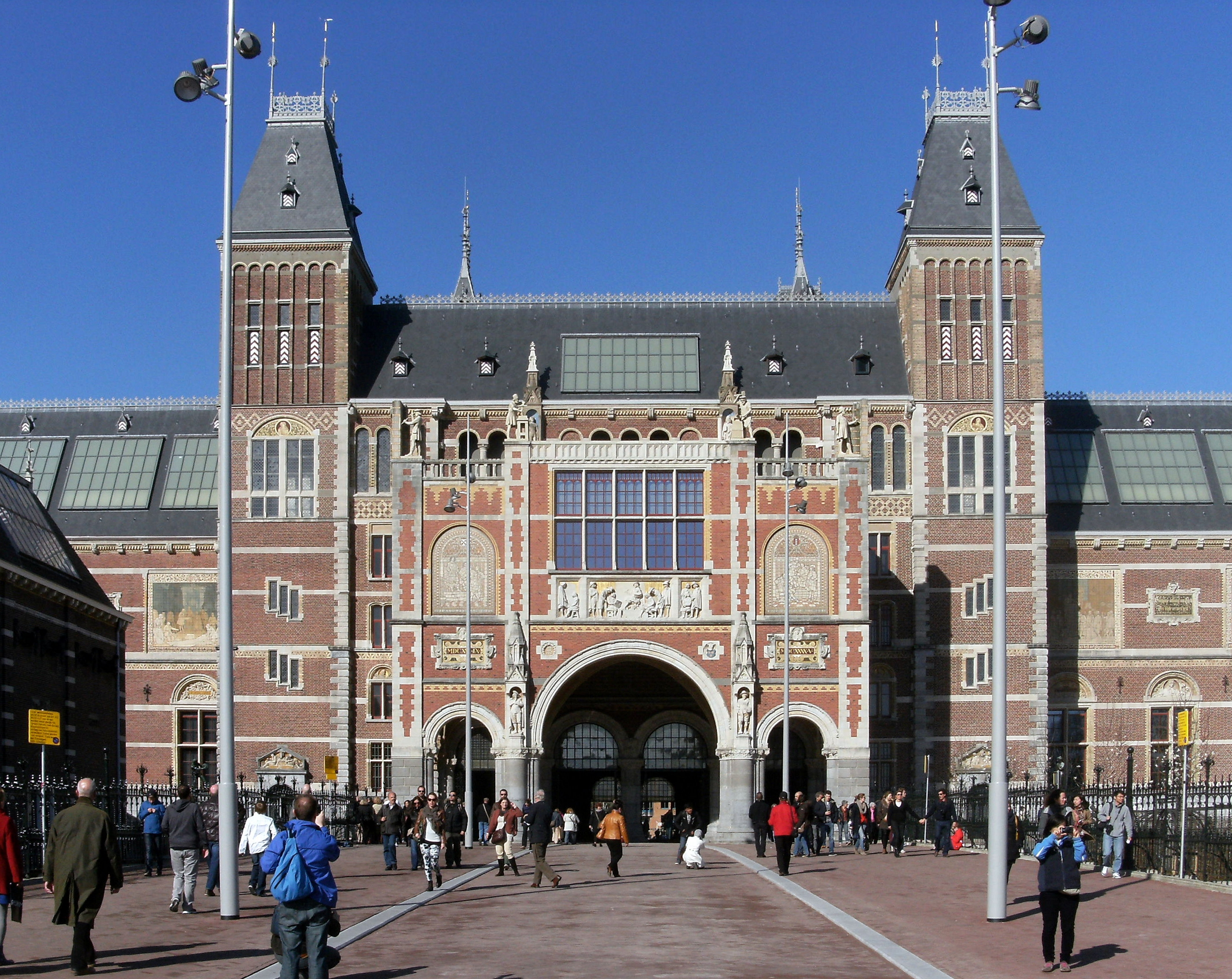 20130420 Amsterdam; Rijksmuseum.